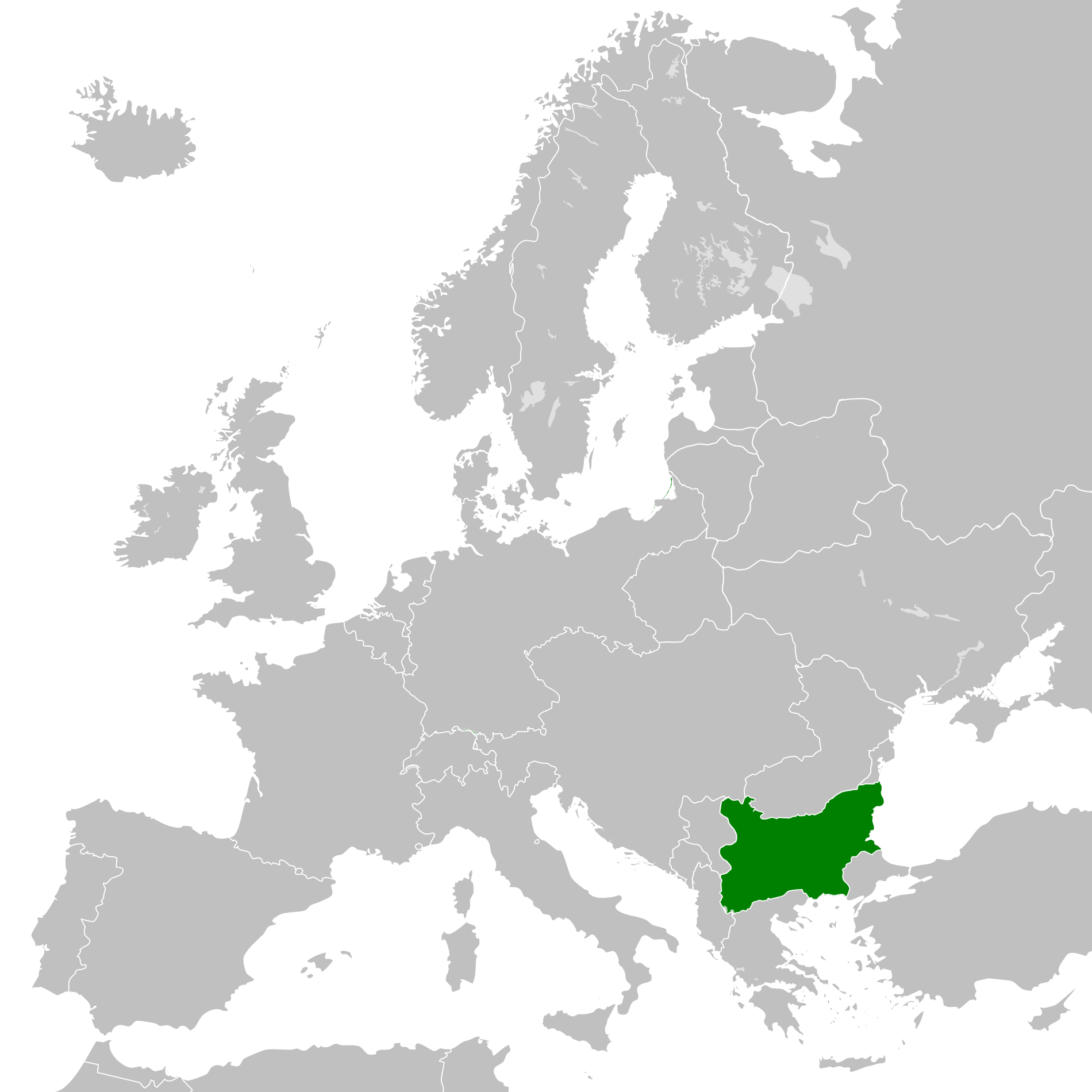 The kingdom of Bulgaria after the treaty of Bucharest